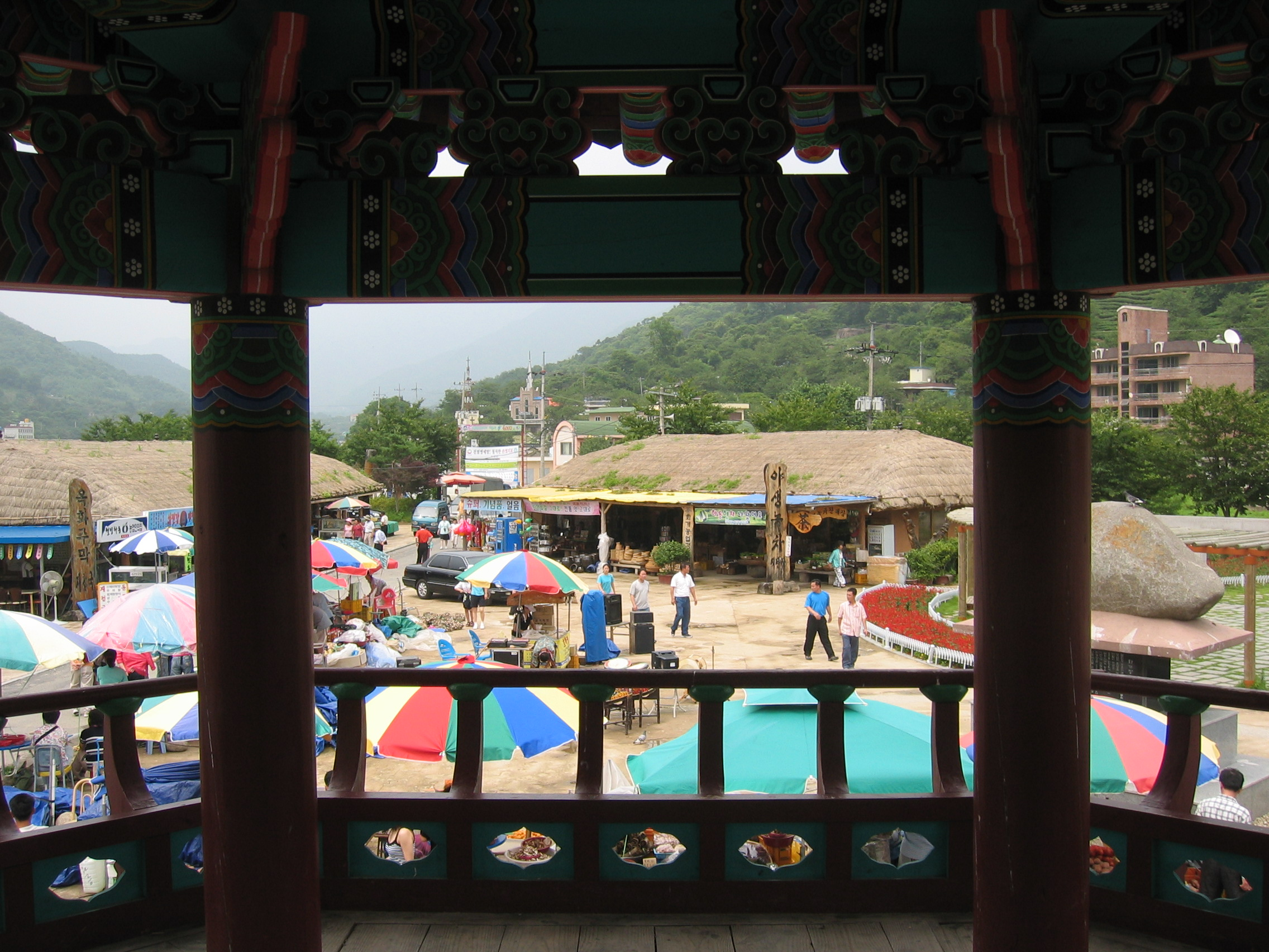 Hwagae jangteo (Hwagae Market) near Jirisan (Mt.Jiri)Gyeongsangnam-do, South Korea, 2006